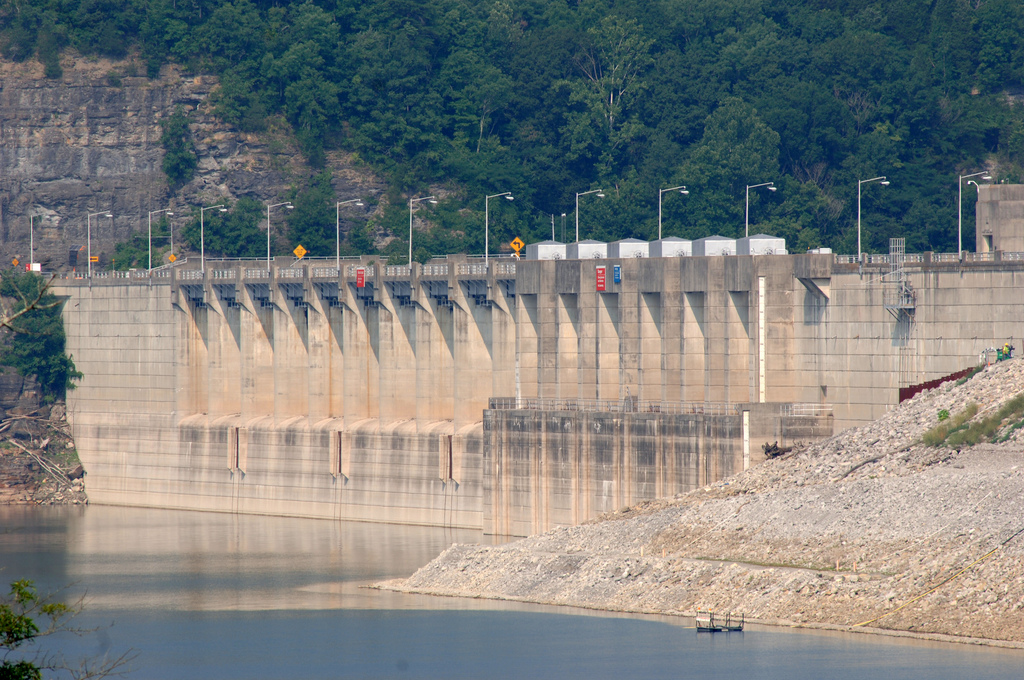 View of Wolf Creek Dam, July 7, 2011. (U.S. Army Corps of Engineers photo by Lee Roberts)